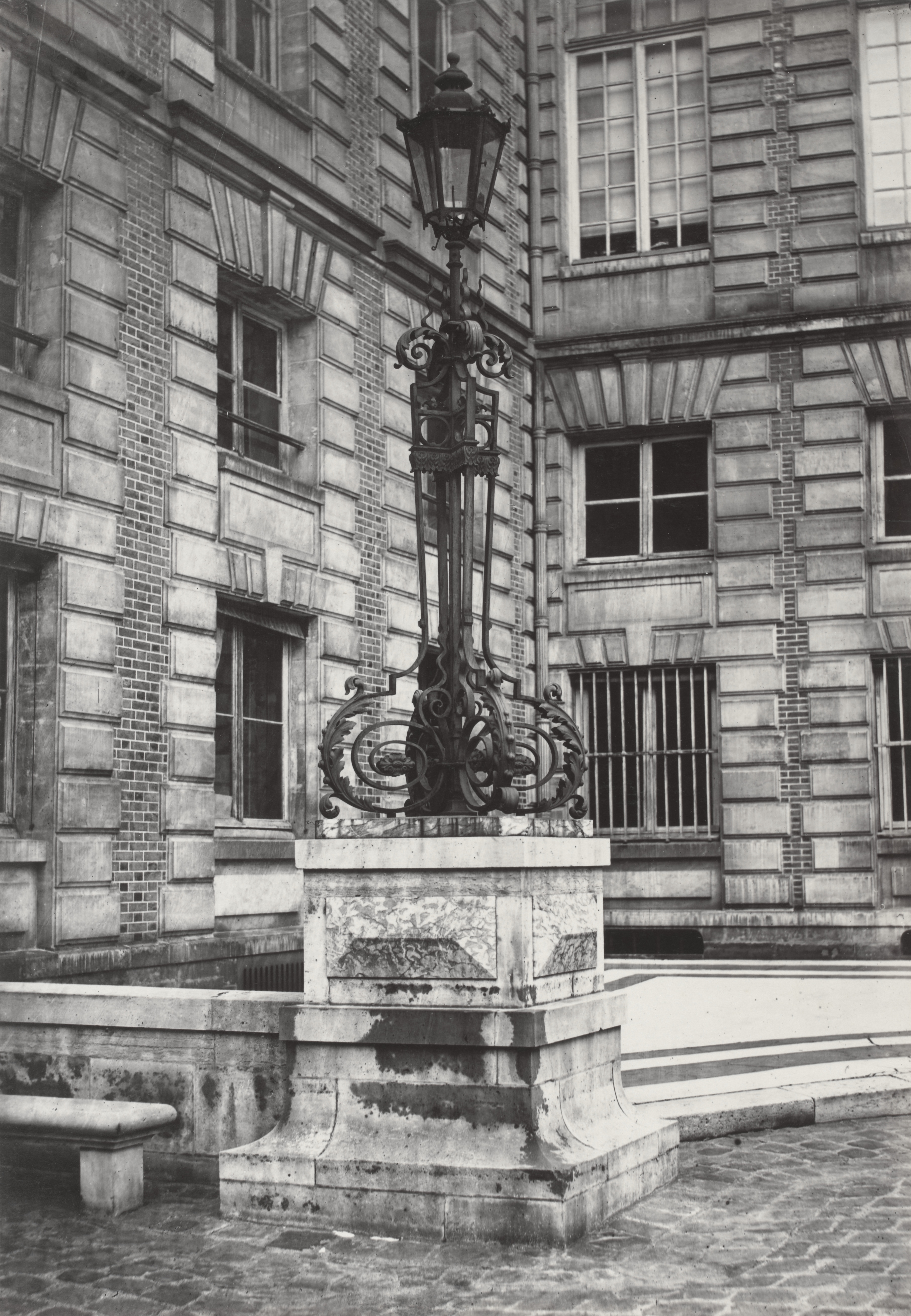 Single lamp on elaborate wrought iron lamp stand, mounted on stone plinth.